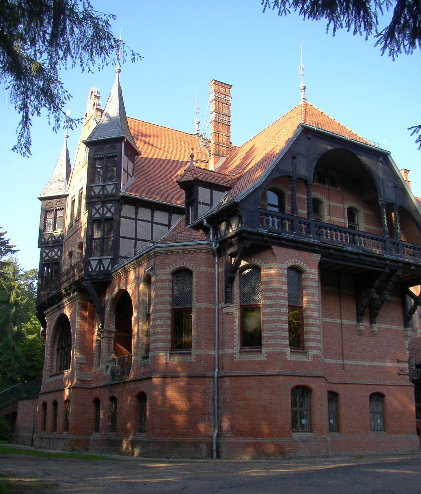 Castle in Gelbensande in Mecklenburg-Western Pomerania, Germany